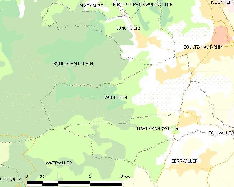 Map of French municipality